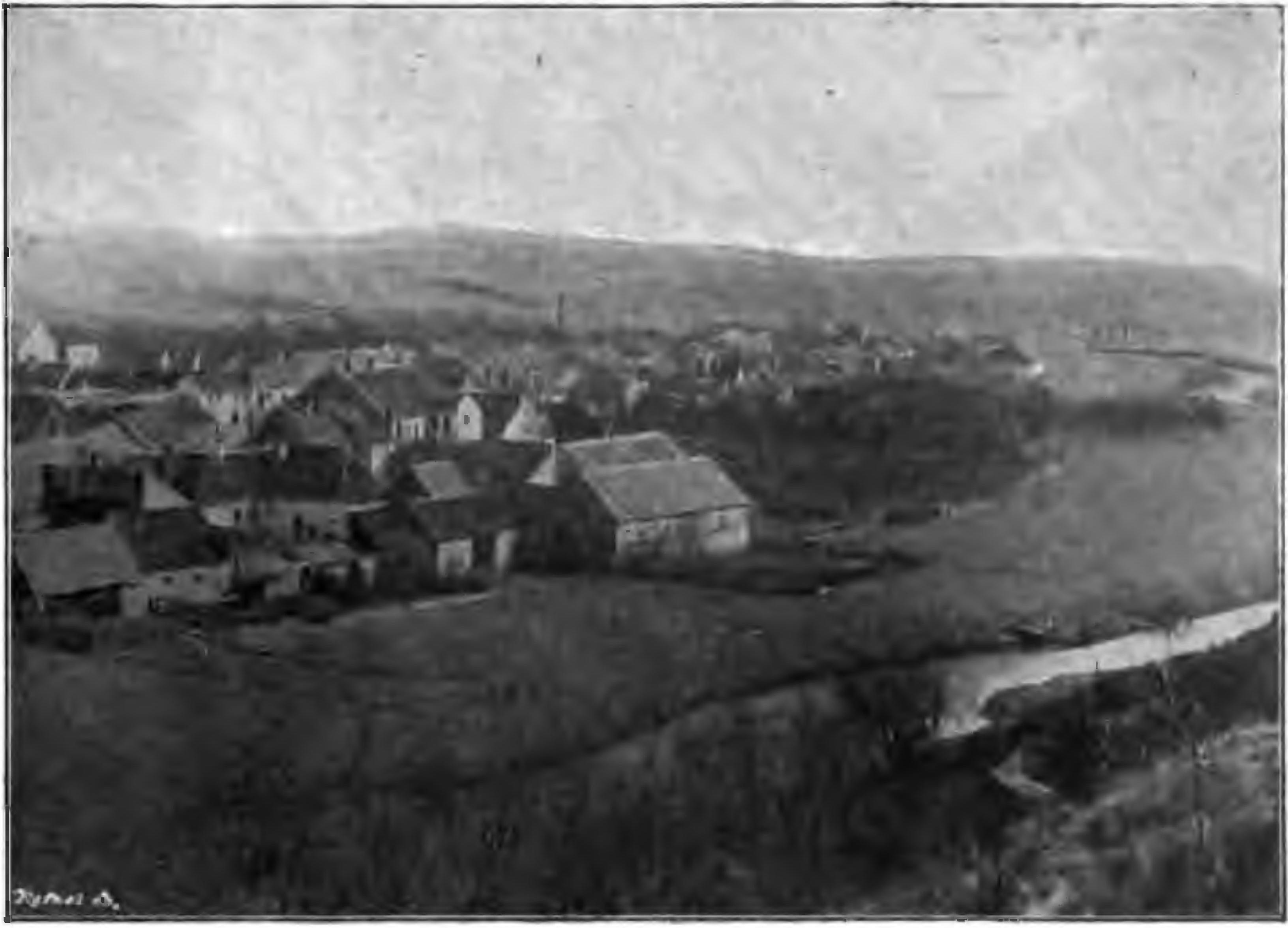 Pic. 29. Nové Město (east part of Třebíč).